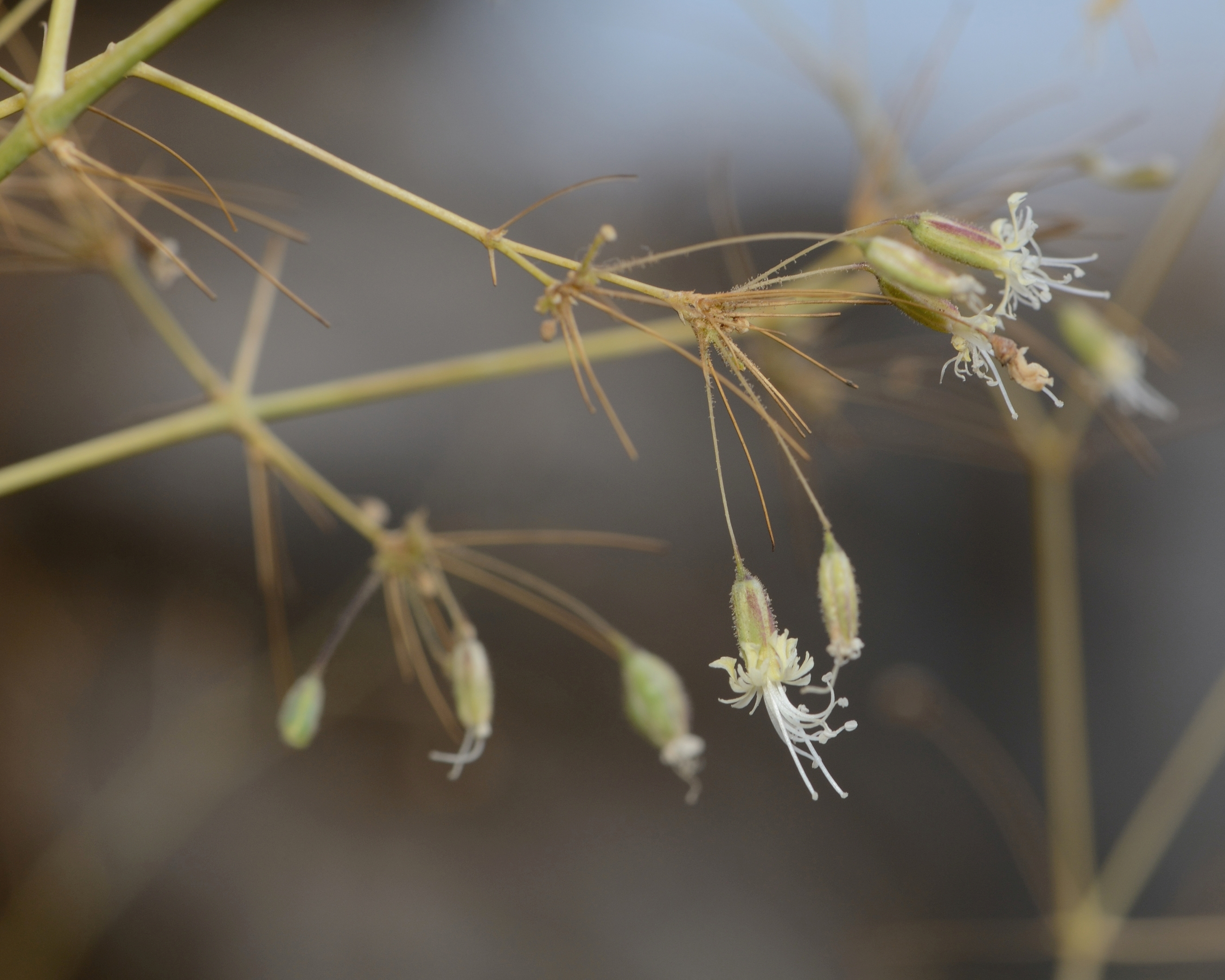 Ankyropetalum gypsophiloides Fenzl, Nahal Aviv, Upper Galilee, Israel, October 12, 2012.